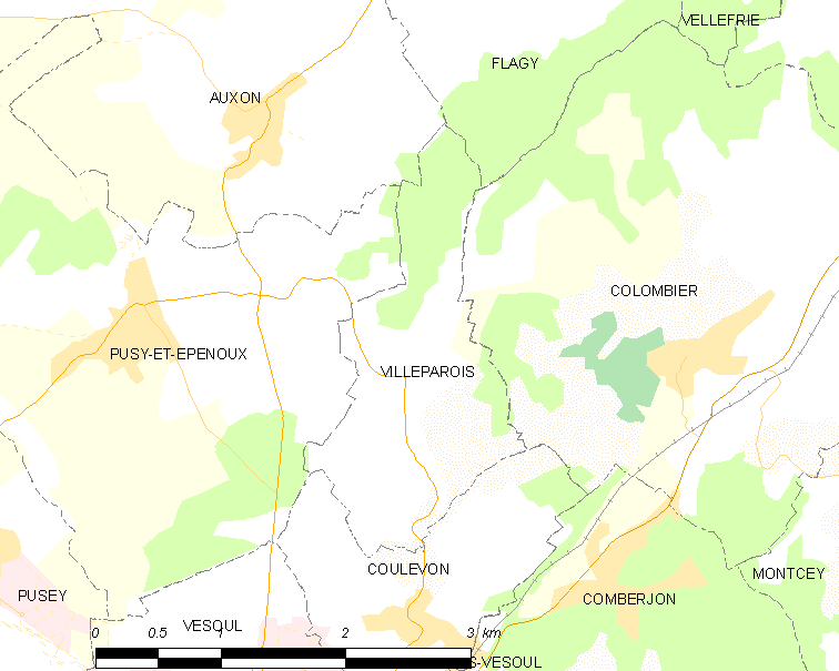 Map of French municipality